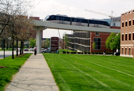 The Clarian Health Partners People Mover moves staff, students and patients around the campuses of IU Med Center, Clarian Health Partners, Methodist Hospital and Wishard Hospital (I'm not positive about all of those, but they're all in the same neighborhood).